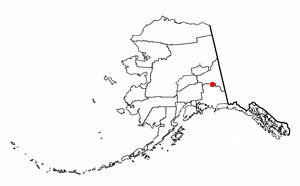 Adapted from Wikipedia's AK borough maps by Seth Ilys.